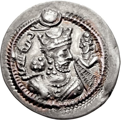 Coin of the Sasanian king Jamasp, Susa mint.